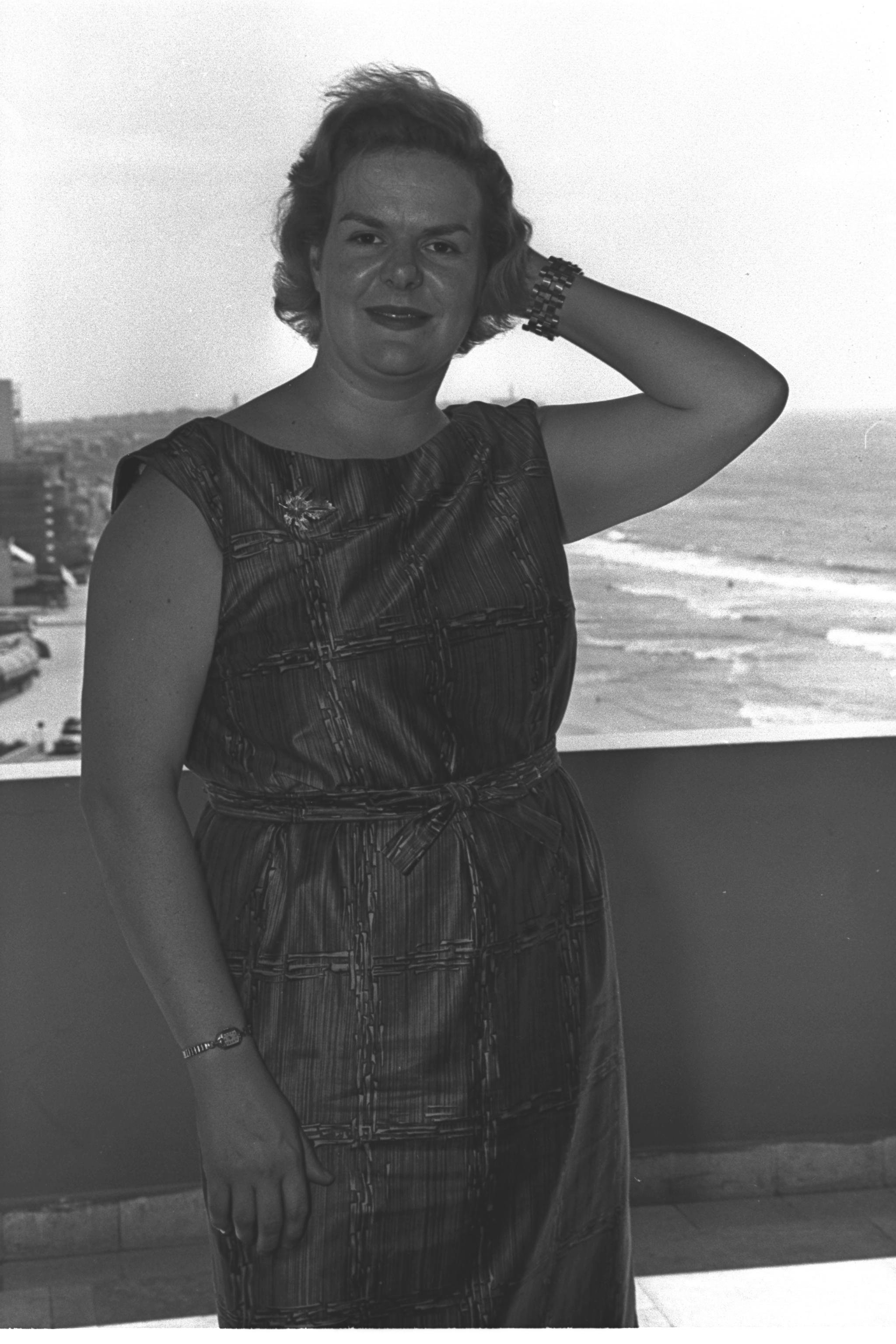 Maureen Forrester during a visit to Israel, 1961